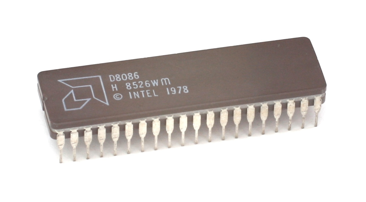 CPU AMD D8086